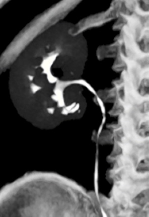 Volume rendering of a CT scan with intravenous contrast excreted into the ureter.